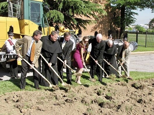 Groundbreaking of the Holthaus Center for the Fine Arts at Archbishop Curley High School in Baltimore, MD.